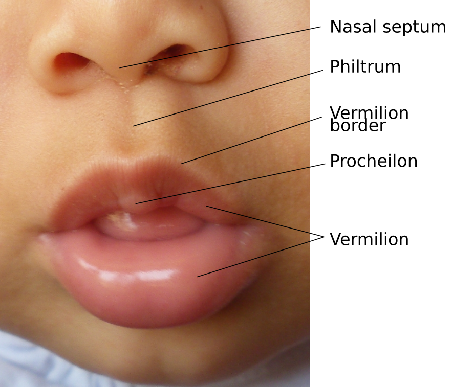 Anatomical features of the lips of a baby. Modified from image by Occlusion - CC BY-SA 4.0-3.0-2.5-2.0-1.0